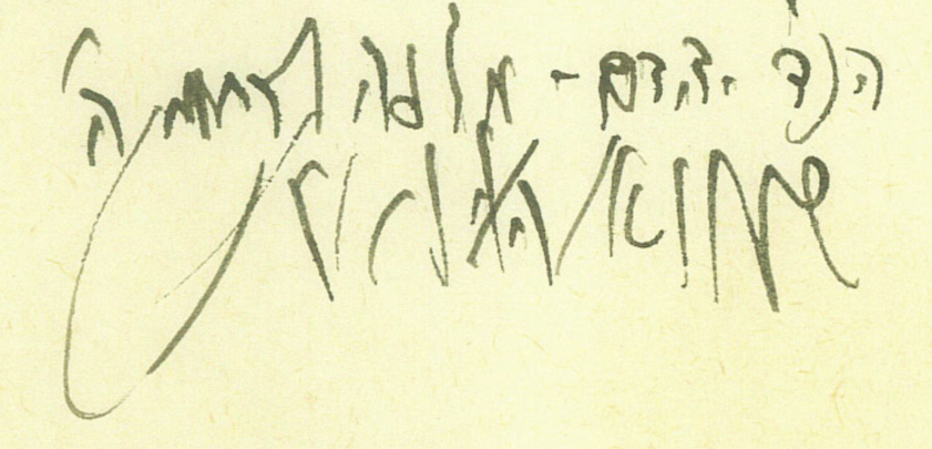 crop of File:מכתבו של הרב שמואל הלוי וואזנר אודות האם תרגום הוא תורה שבכתב או בע"פ מכתב תשובה להרב שלמה שטנצל.pdf Signature of Rabbie Shmuel Wosner.